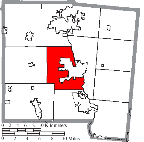 Map of the municipal and township boundaries of Miami County, Ohio, United States, as of the 2000 census, with the location of Concord Township highlighted. Township borders are shown only in unincorporated areas in order to differentiate incorporated and unincorporated areas more clearly.